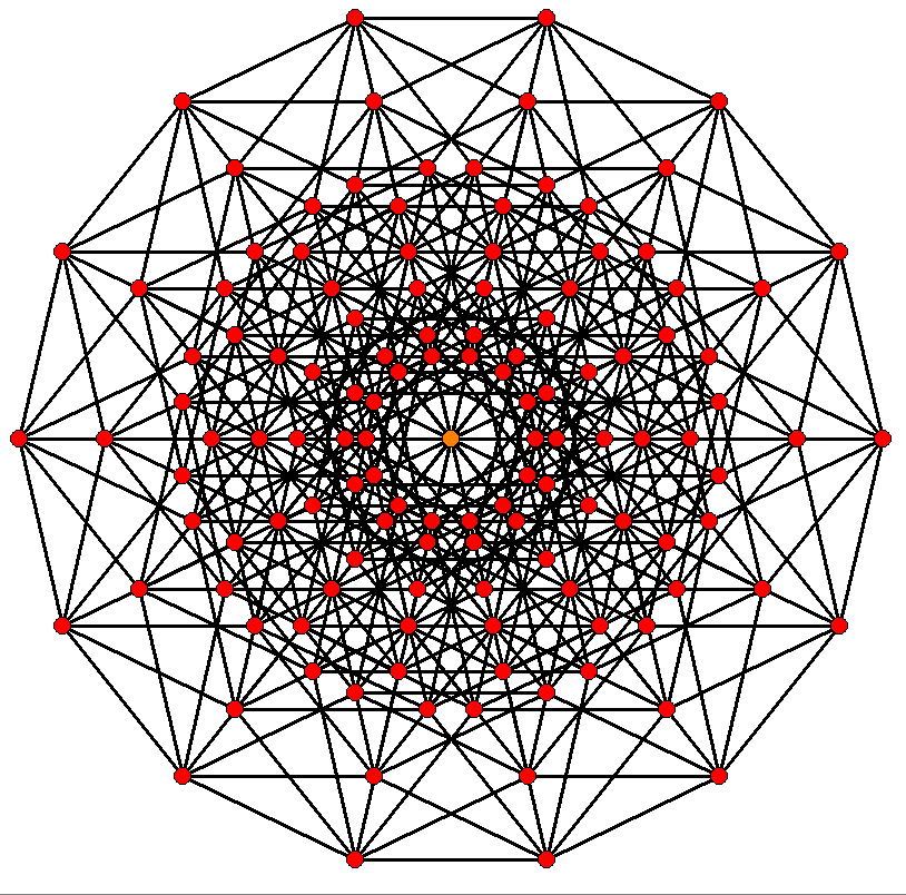 7-cube graph, vertices colored by overlap, red=1, orange=2, green=4